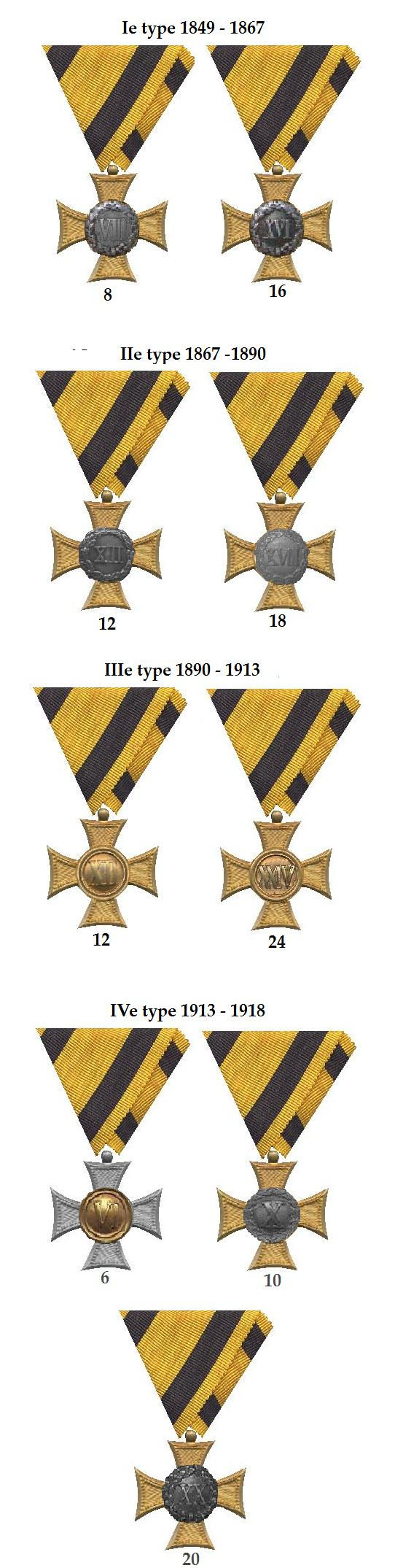 Cross for long service Austria Mannschaftsdienst-Kreuze 1848 bis 1918 Österreich